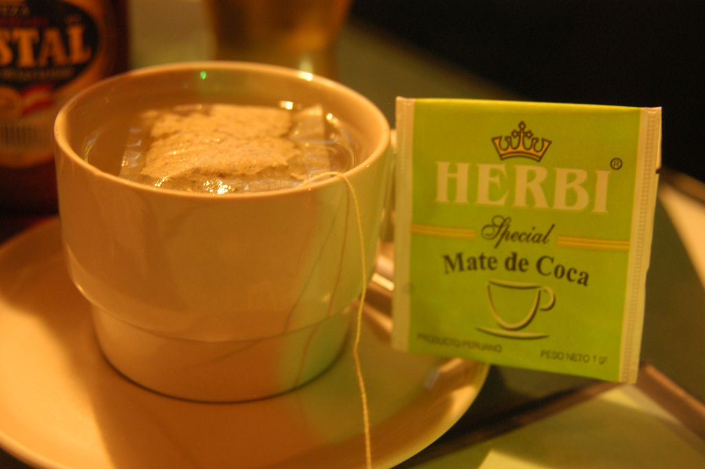 My first taste of the coca tea.